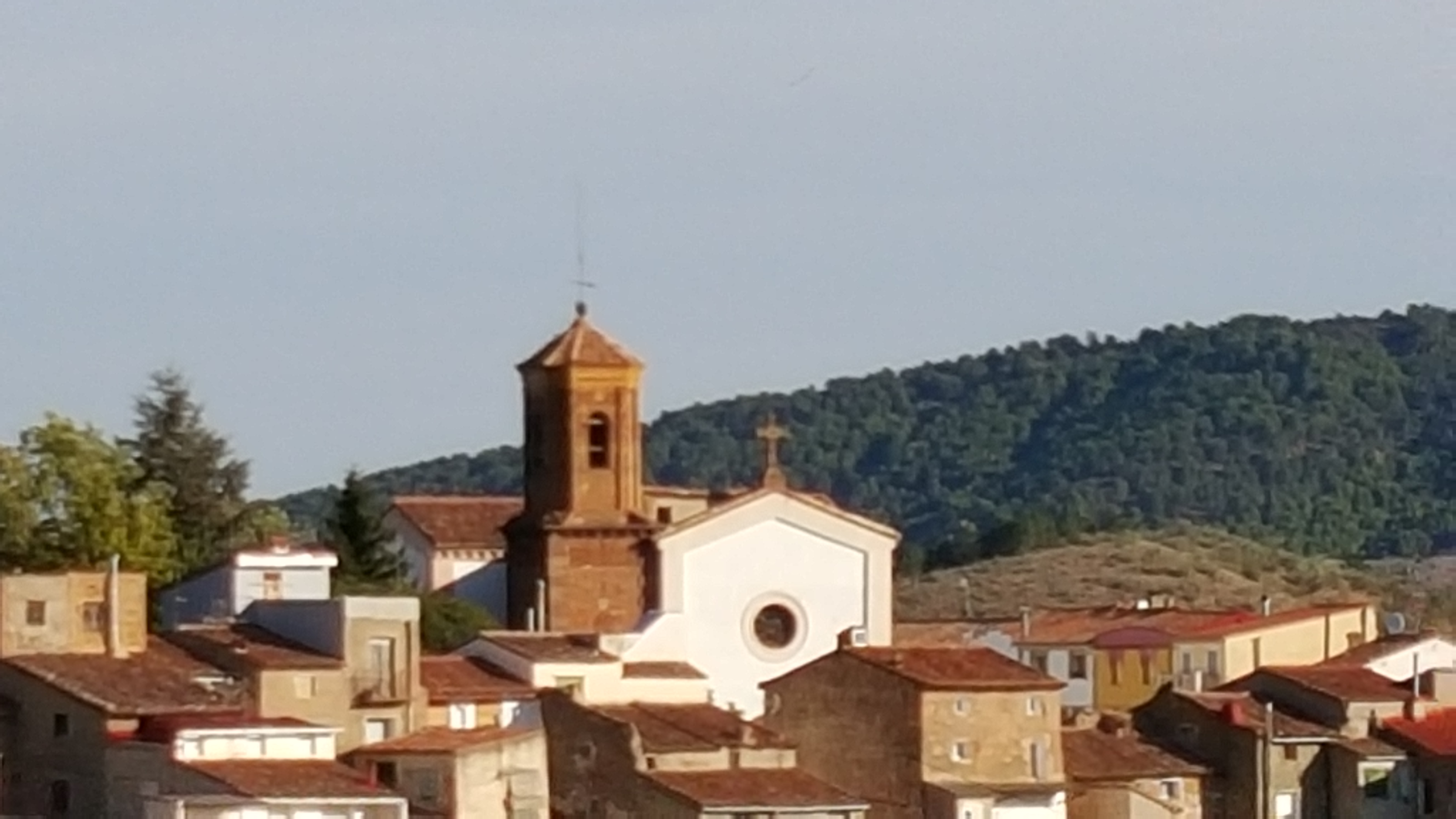 Church of St Blas, Santa Cruz de Grío, Zaragoza, Spain